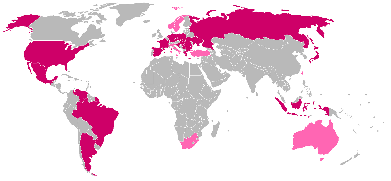 This map shows the countries where Playboy magazine is published . The dark pink indicates the countries where regional editions of the magazine are produced today, and the lighter pink indicates the countries where regional editions Playboy were published, but were ceased. This map was made by myself using the maps BlankMap-World.png and [:File:BlankMap-World-v5.png BlankMap-World-v5.png].